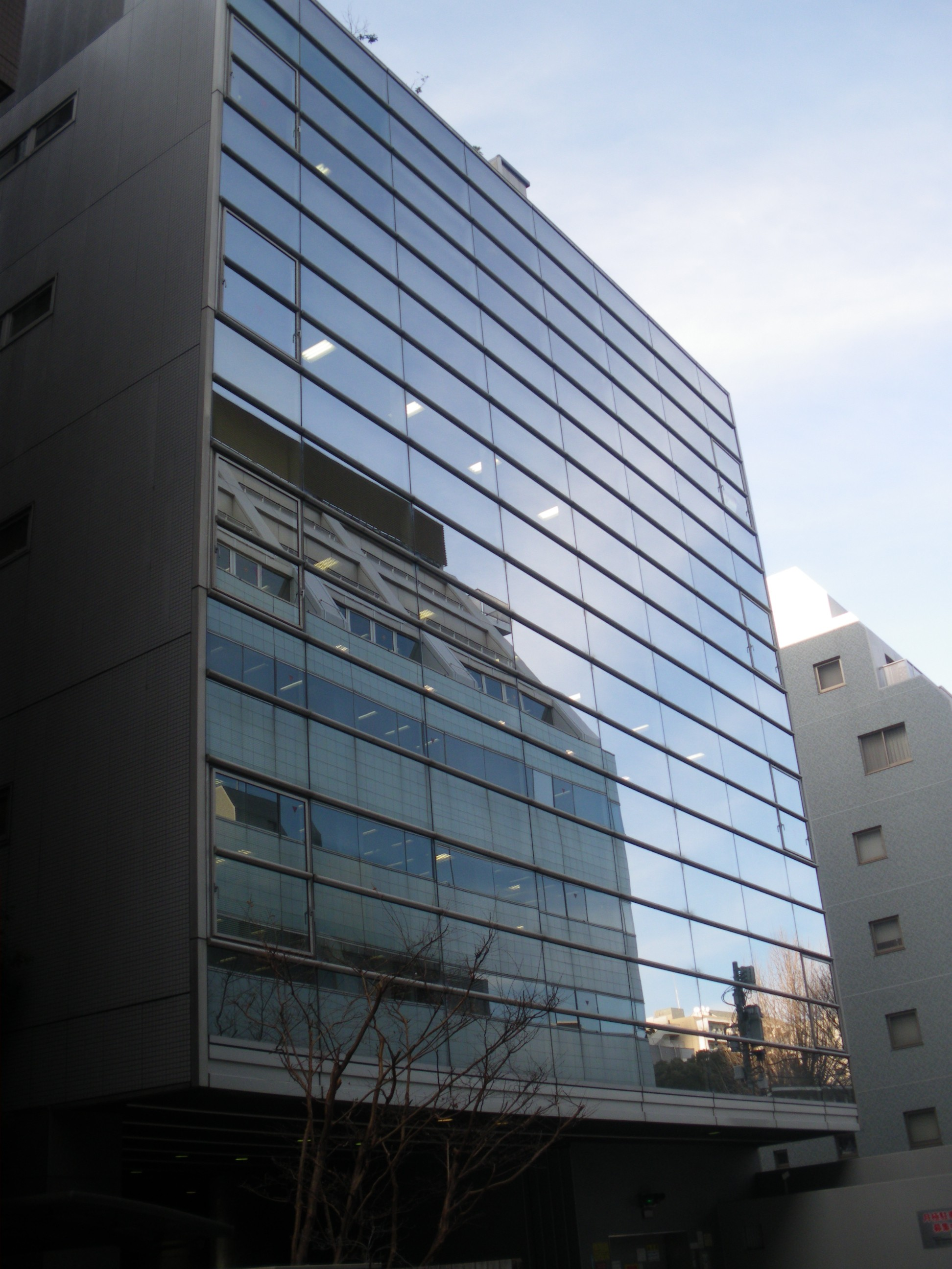 photo of Sumitomo Fudosan Nishishinjuku building No.2, a office building in Shinjuku,Tokyo,Japan.